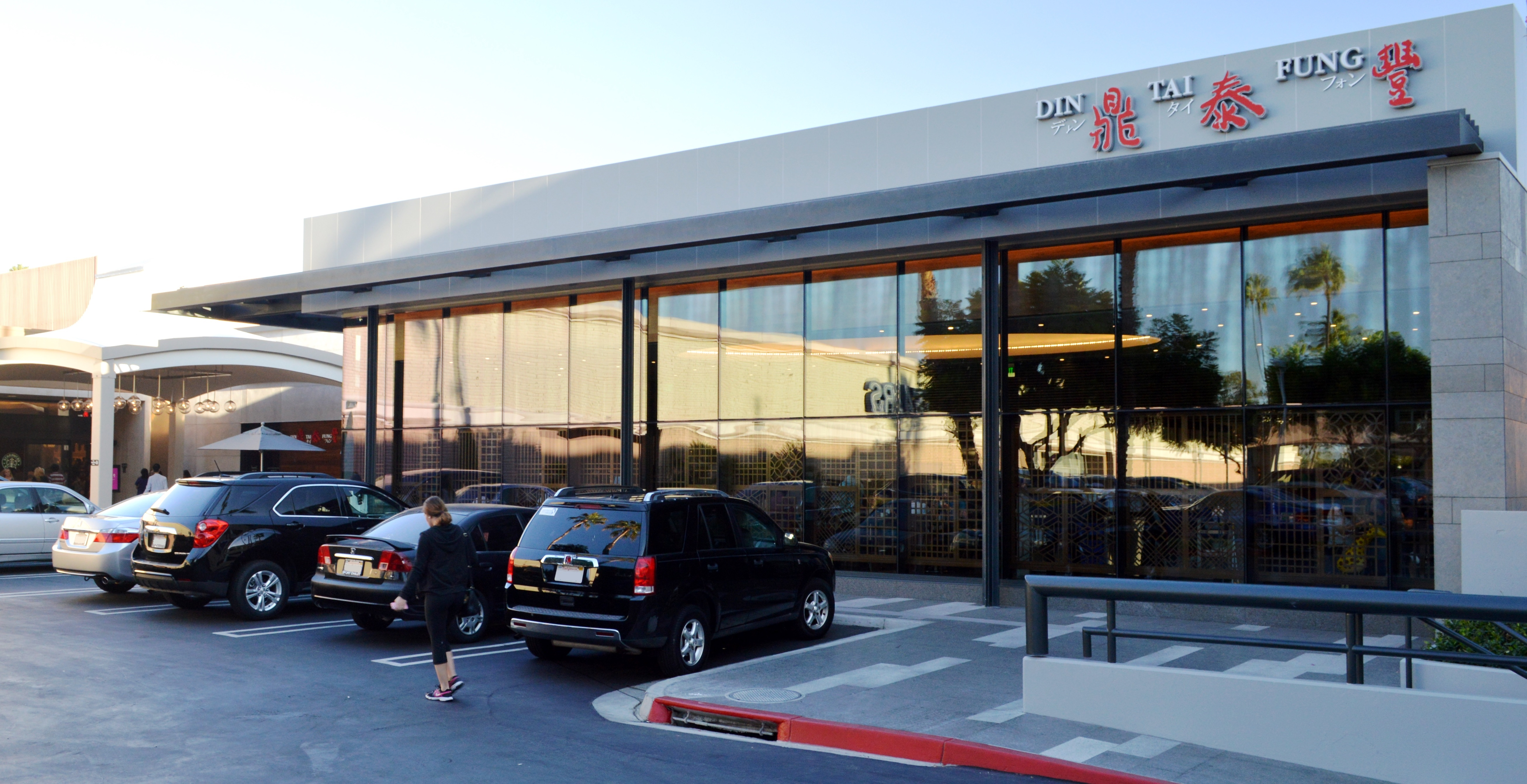 Din Tai Fung at South Coast Plaza in Costa Mesa, Califronia on its opening day (August 18, 2014).